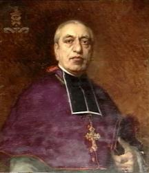 Mgr Paul-Félix Beuvain de Beanséjour, Bishop of Carcassonne